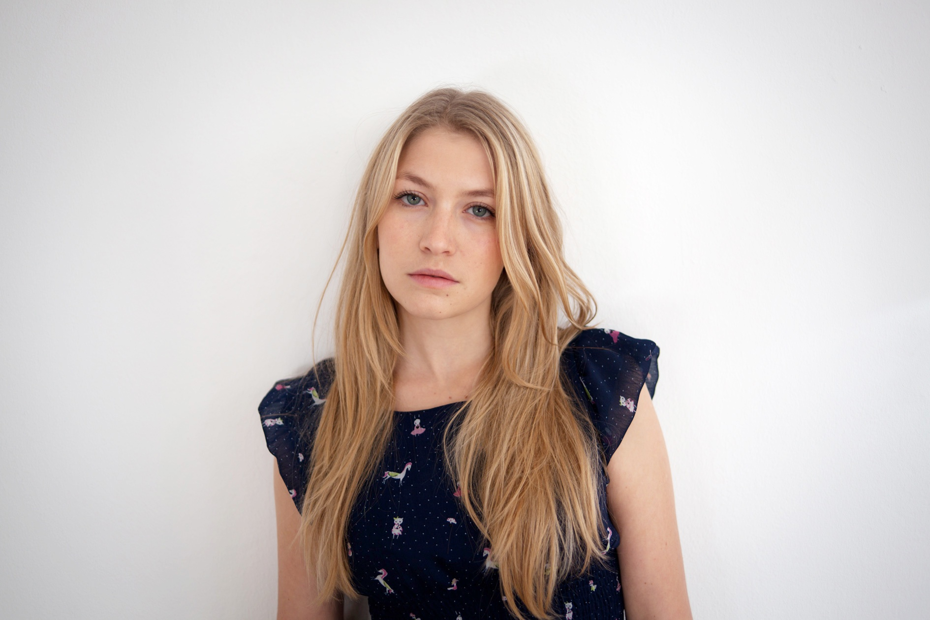 Isabella Wolf